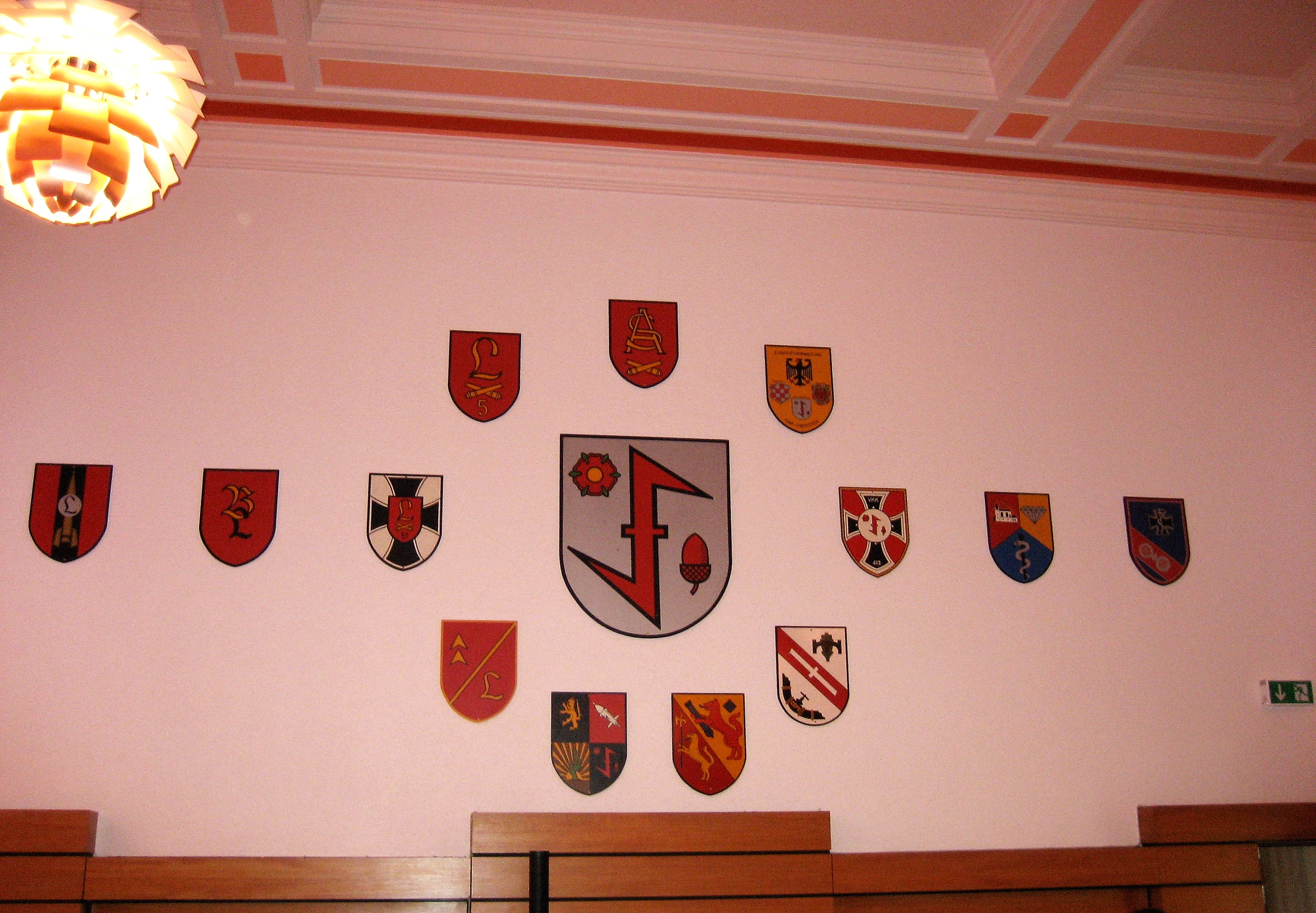 Hall of the officer's club Idar-Oberstein on the Rilchenberg